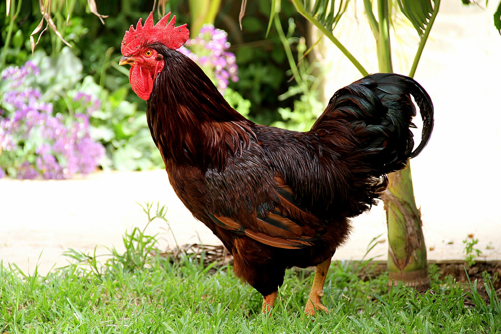 Rhode Island Red Rooster